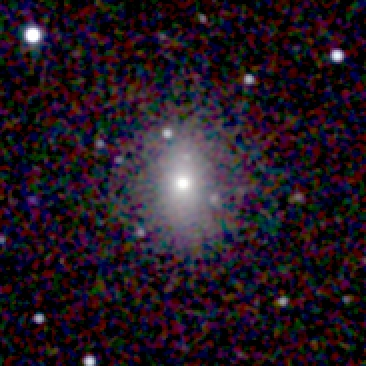 2MASS image of NGC 7070A.